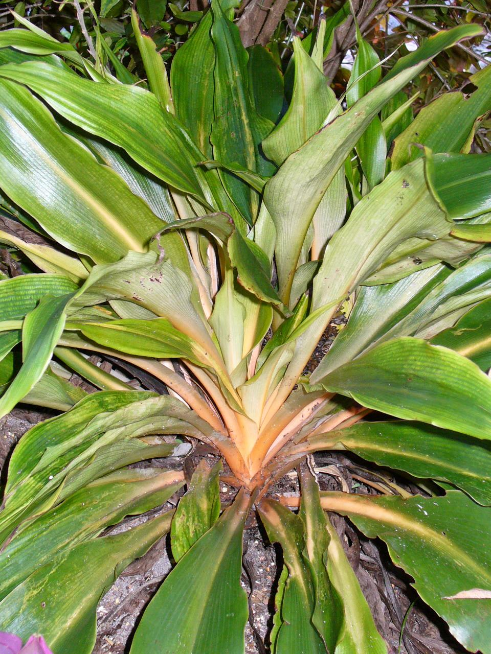 Chlorophytum orchidastrum South Miami, FL, USA